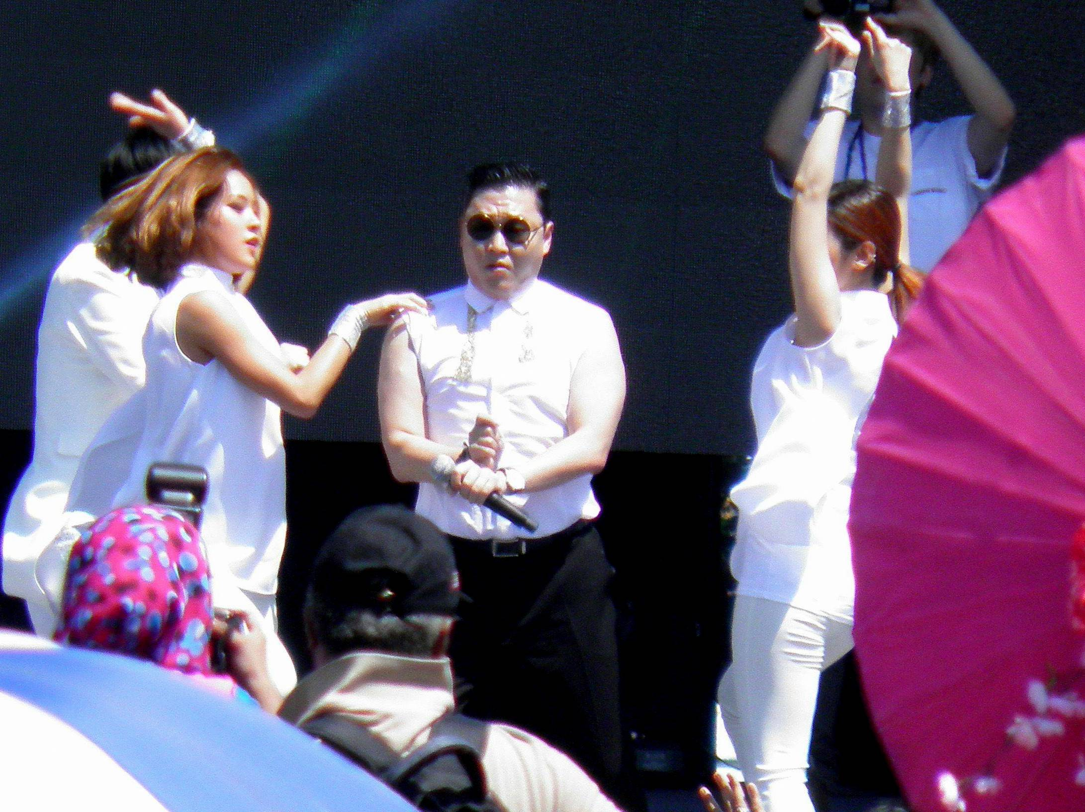 Psy performing his signature Gangnam Style during a Barisan Nasional rally at Han Chiang College in George Town, Penang on 11 February 2013, prior to Malaysia's 13th General Election.